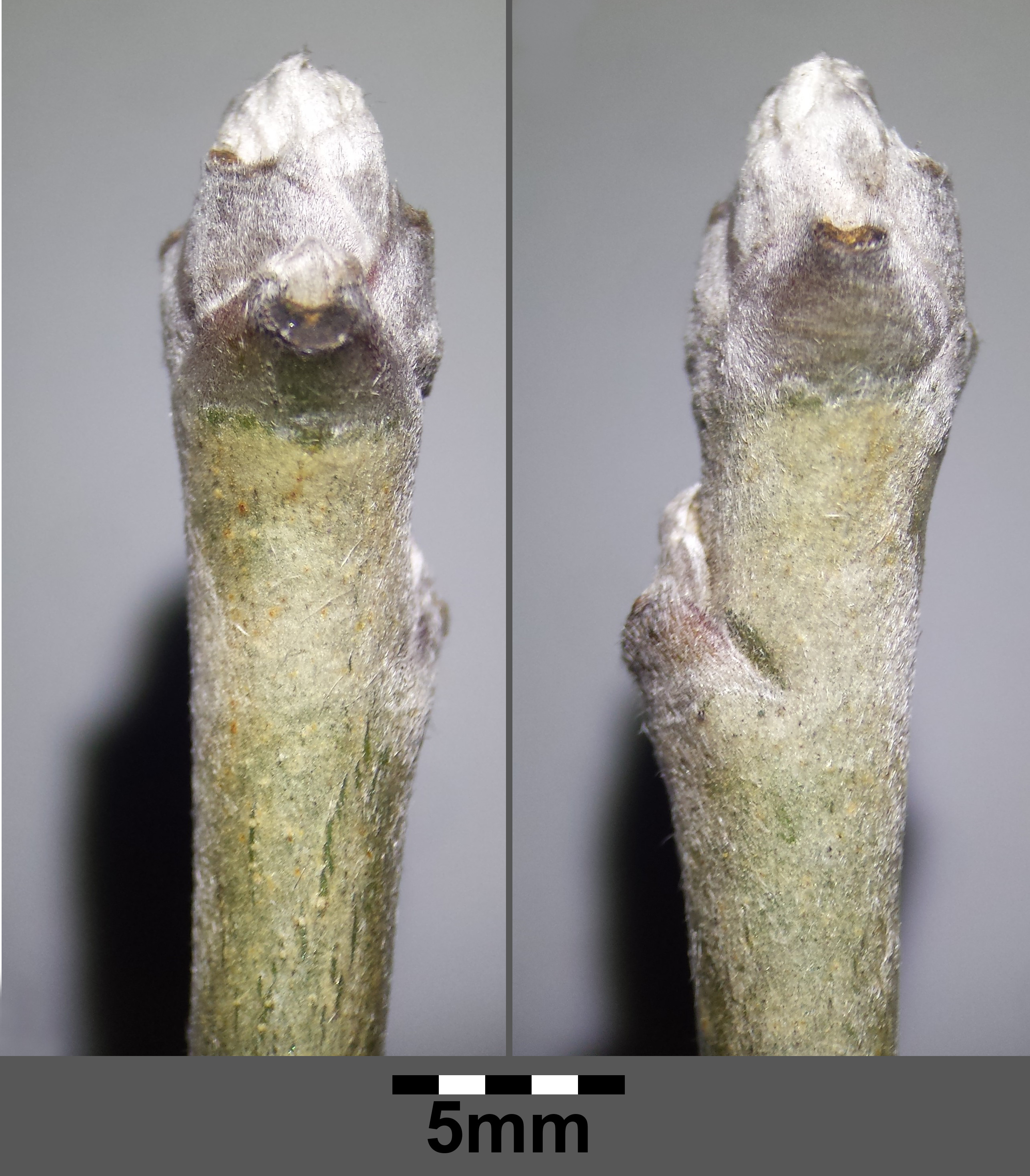 Buds Taxonym: Laburnum anagyroides ss Fischer et al. EfÖLS 2008 ISBN 978-3-85474-187-9 Location: near Niederhollabrunn, district Korneuburg, Lower Austria - ca. 300 m a.s.l. Habitat: shrubbery